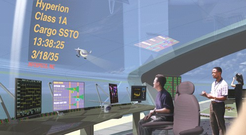 Commercial spaceport control room concept by NASA.